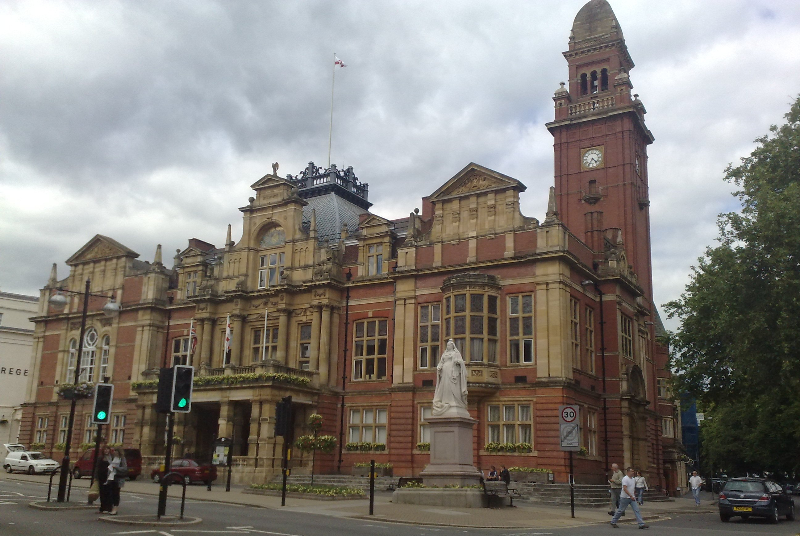 Town Hall, Leamington Spa.